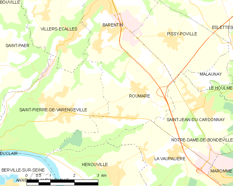 Map of French municipality Roumare